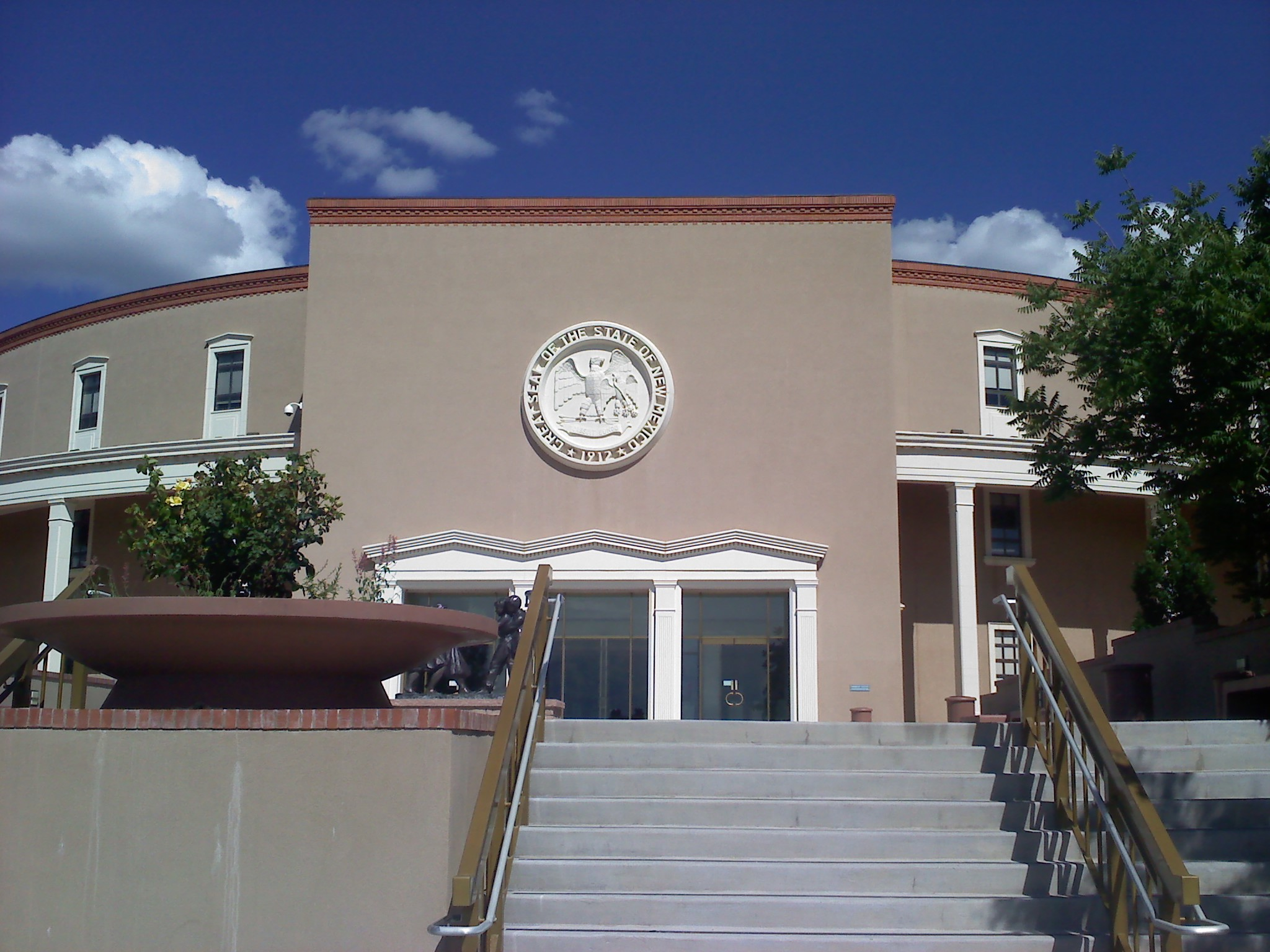 This is a Photograph of the State capitol of New Mexico/east enterance. Taken August 2010.